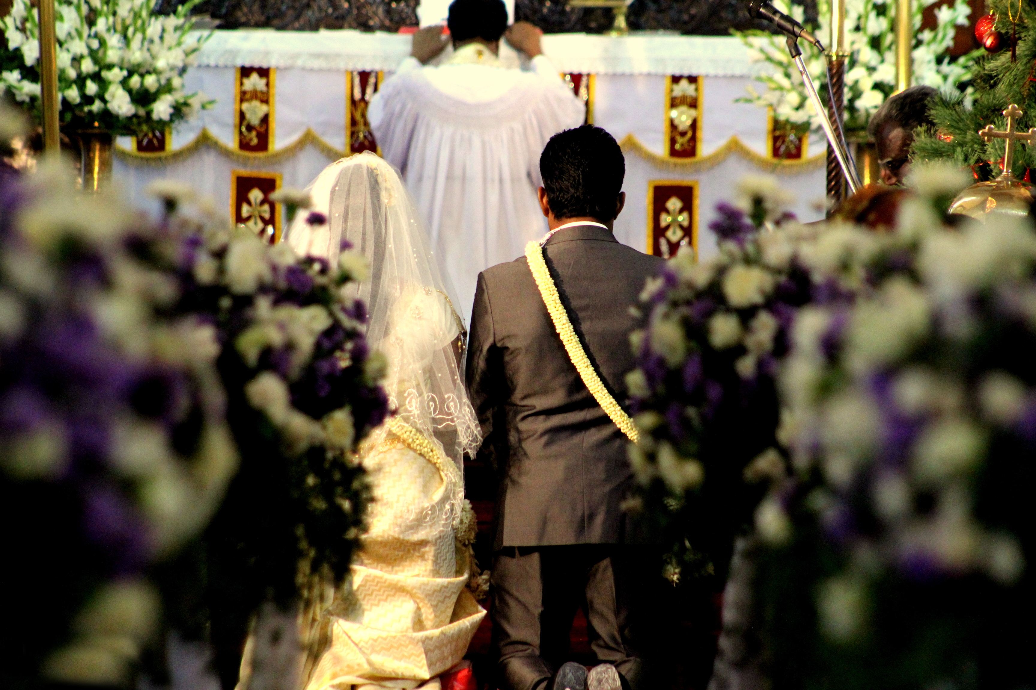 this is a typical christian indian wedding being held in the church.